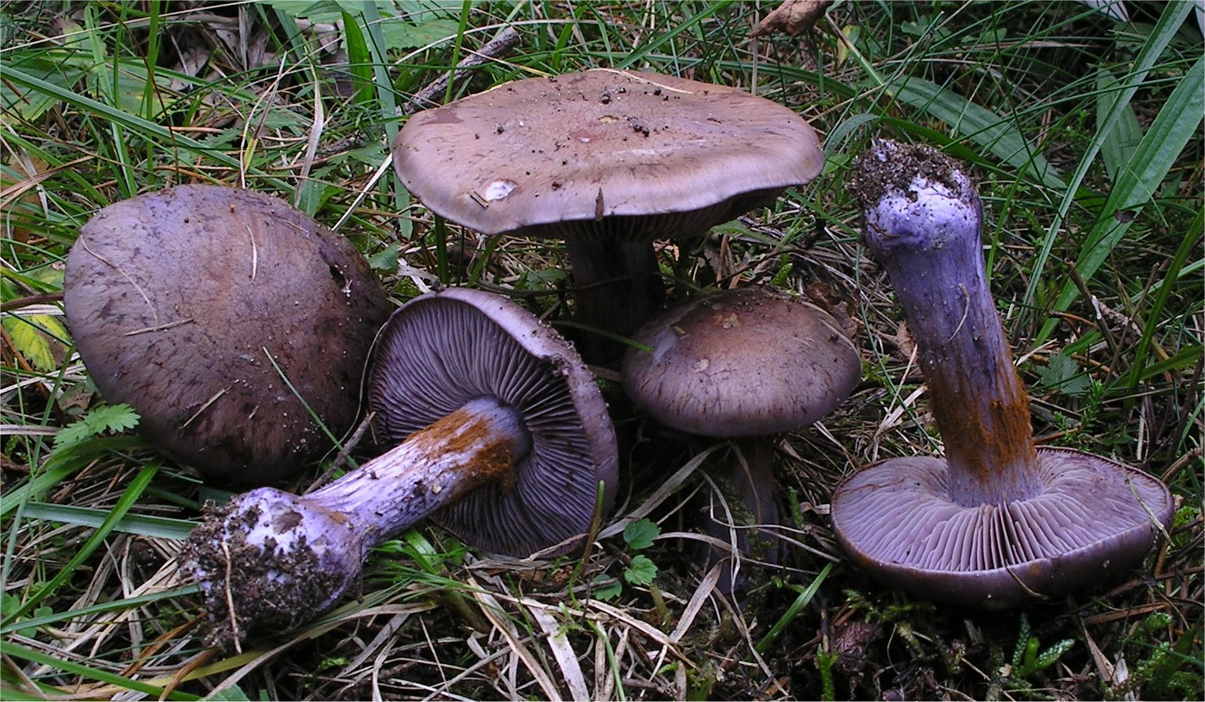 Fruit bodies of the fungus Cortinarius purpurascens. Specimens photographed in Lojsta, Gotland, Sweden.